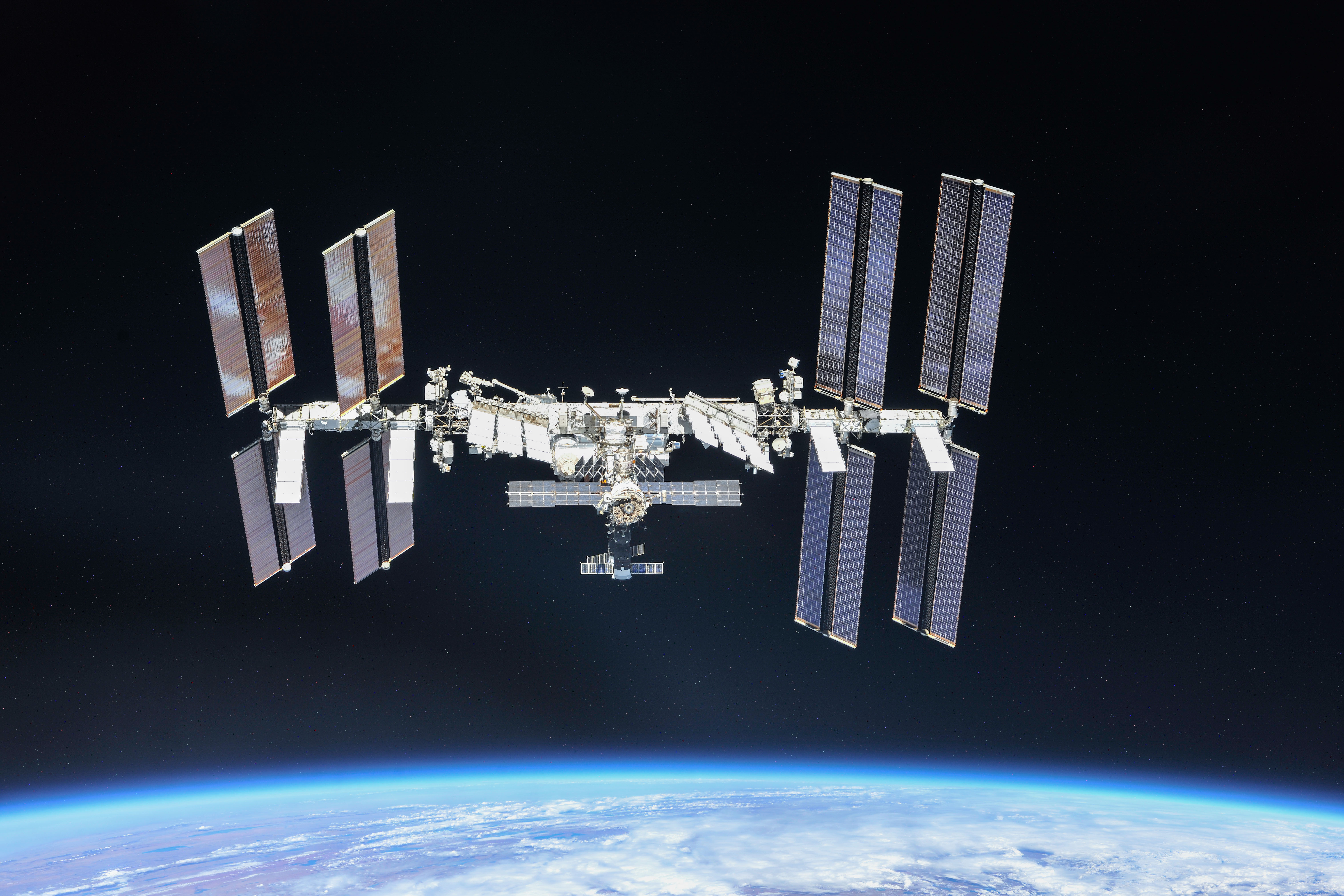 The International Space Station photographed by Expedition 56 crew members from a Soyuz spacecraft after undocking. NASA astronauts Andrew Feustel and Ricky Arnold and Roscosmos cosmonaut Oleg Artemyev executed a fly around of the orbiting laboratory to take pictures of the station before returning home after spending 197 days in space. The station will celebrate the 20th anniversary of the launch of the first element Zarya in November 2018.